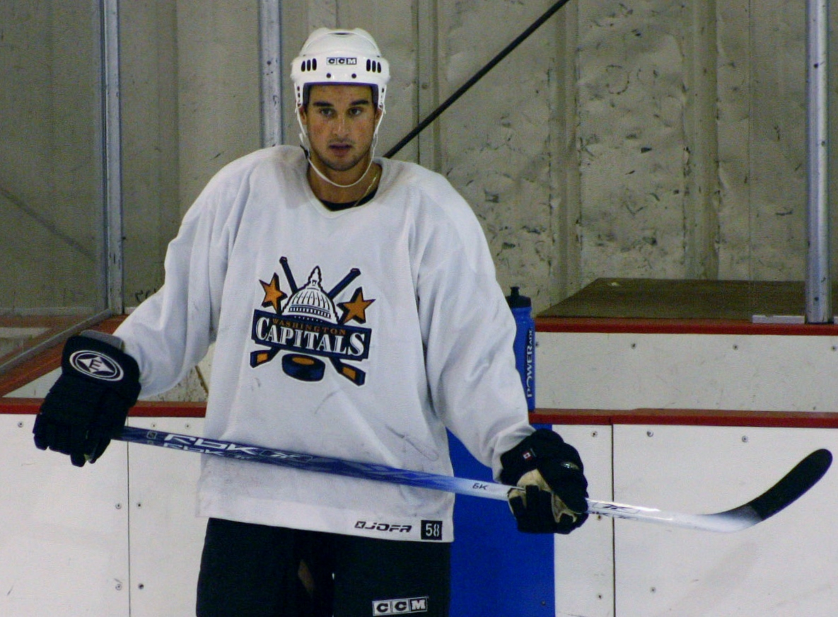 Owen Fussey at Washington Capitals jersey.